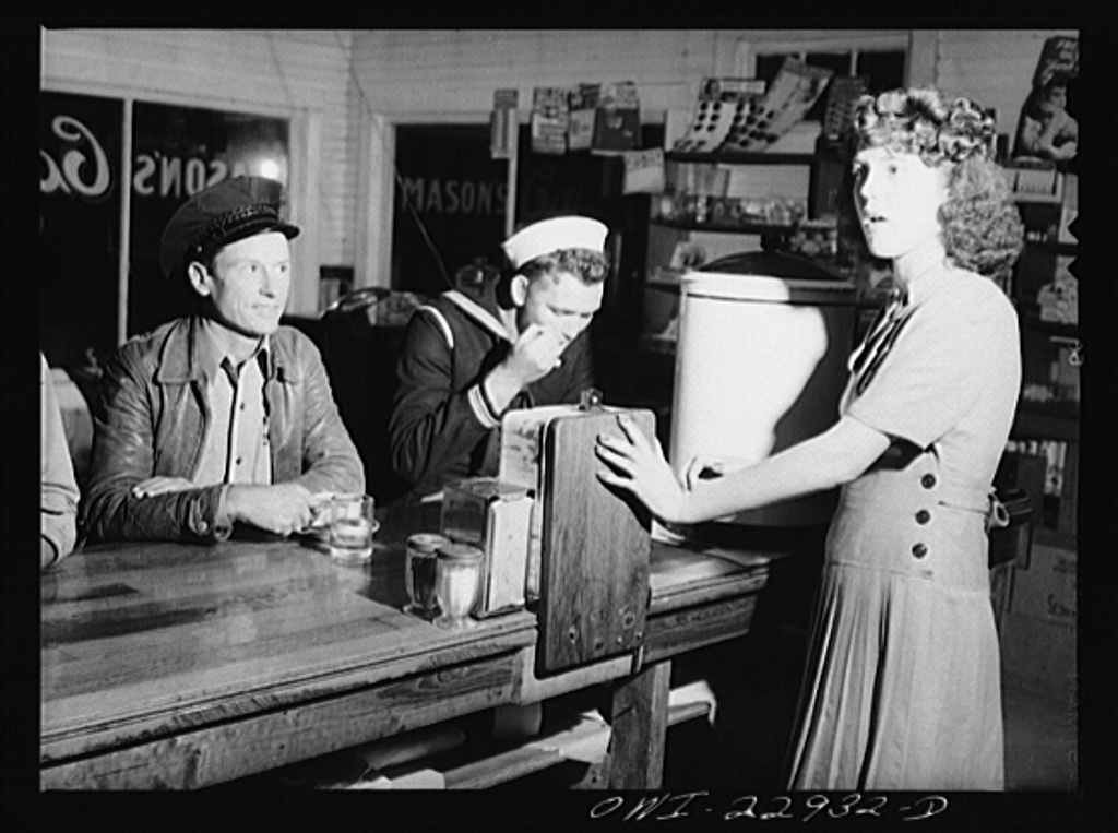 Truck driver, sailor, and waitress at a highway coffee shop on U.S. Highway 90 in southern Louisiana, 1943